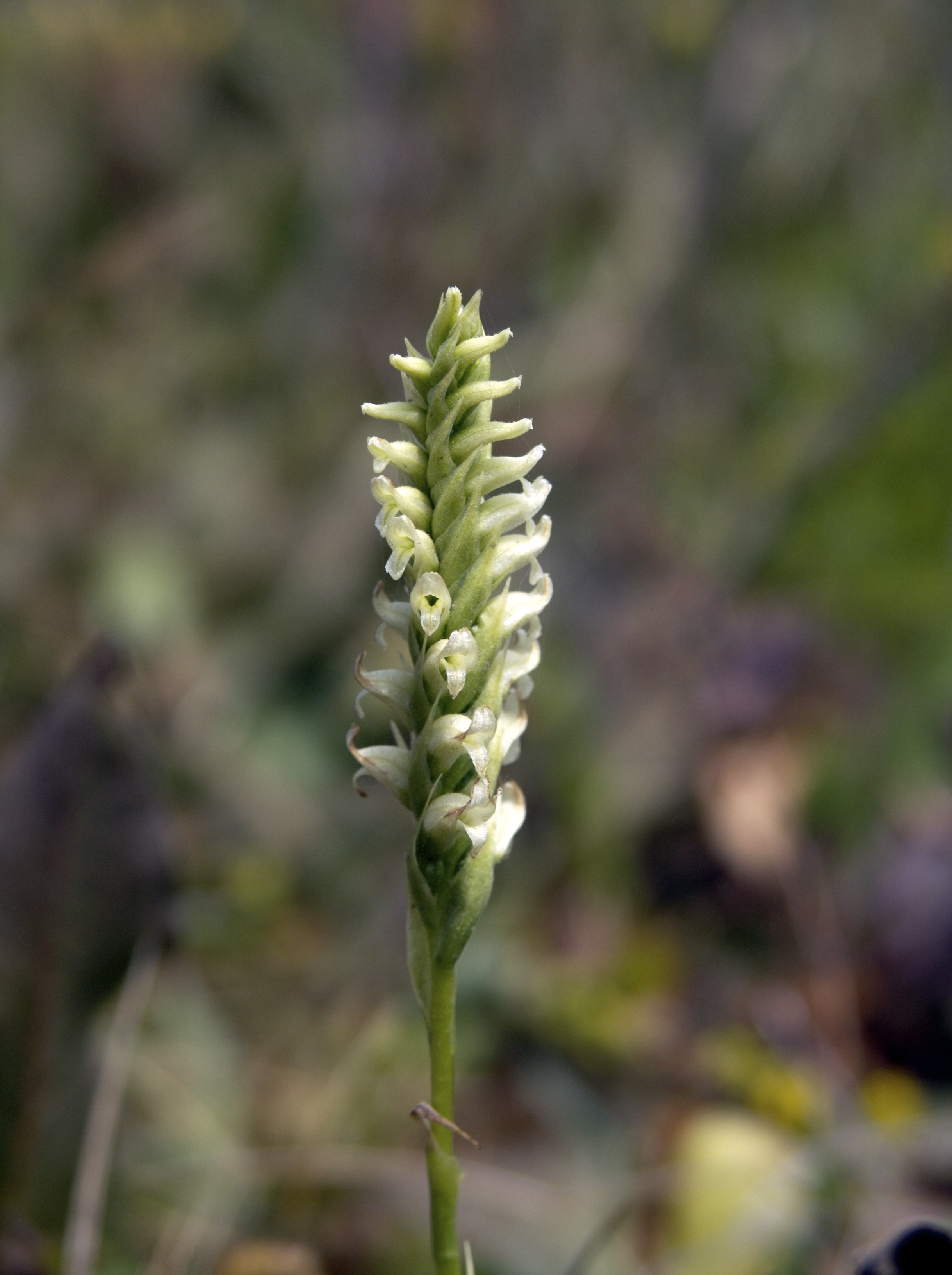 Orchid: Spiranthes romanzoffiana, flower in situ